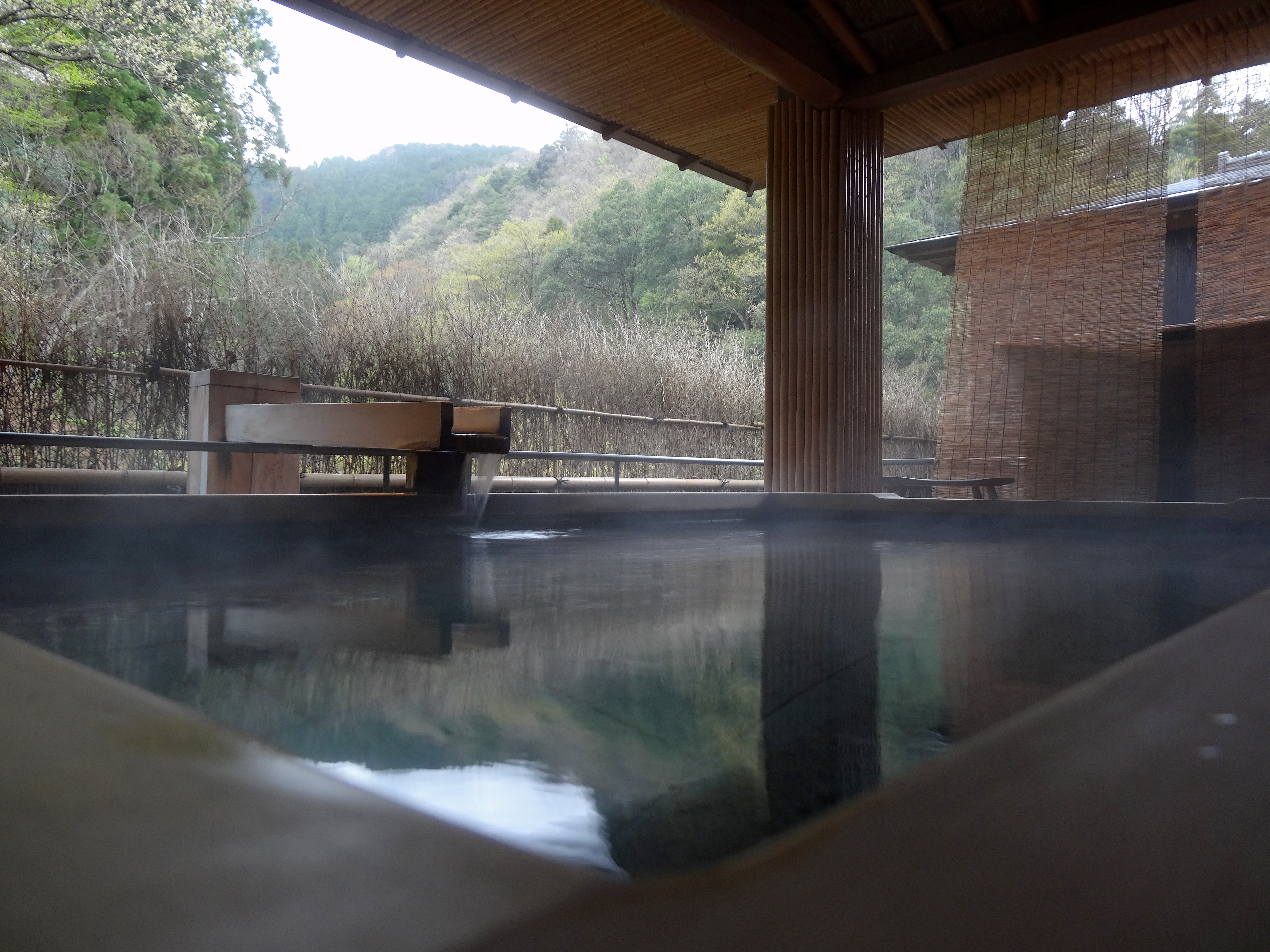 Nishimuraya Hotel Shogetsutei in Kinosaki Onsen town, Toyooka, Hyogo prefecture, Japan.